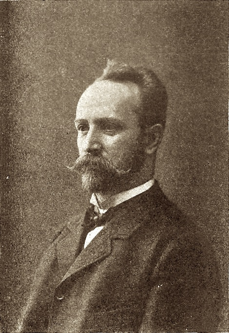 Eugeniusz Ryb (1859–1924) — ukrainian composer, violinist and conductor of polish descent